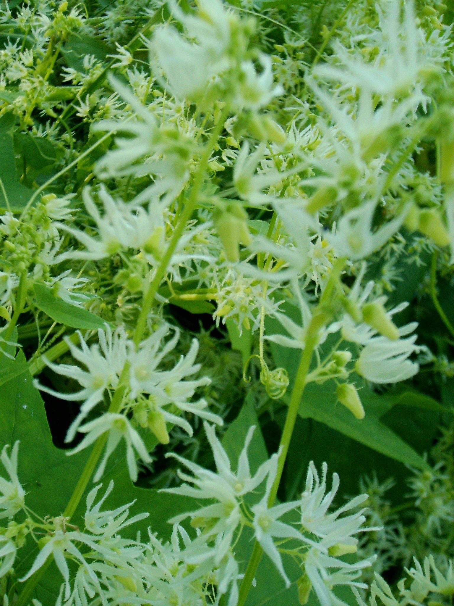 Echinocystis lobata